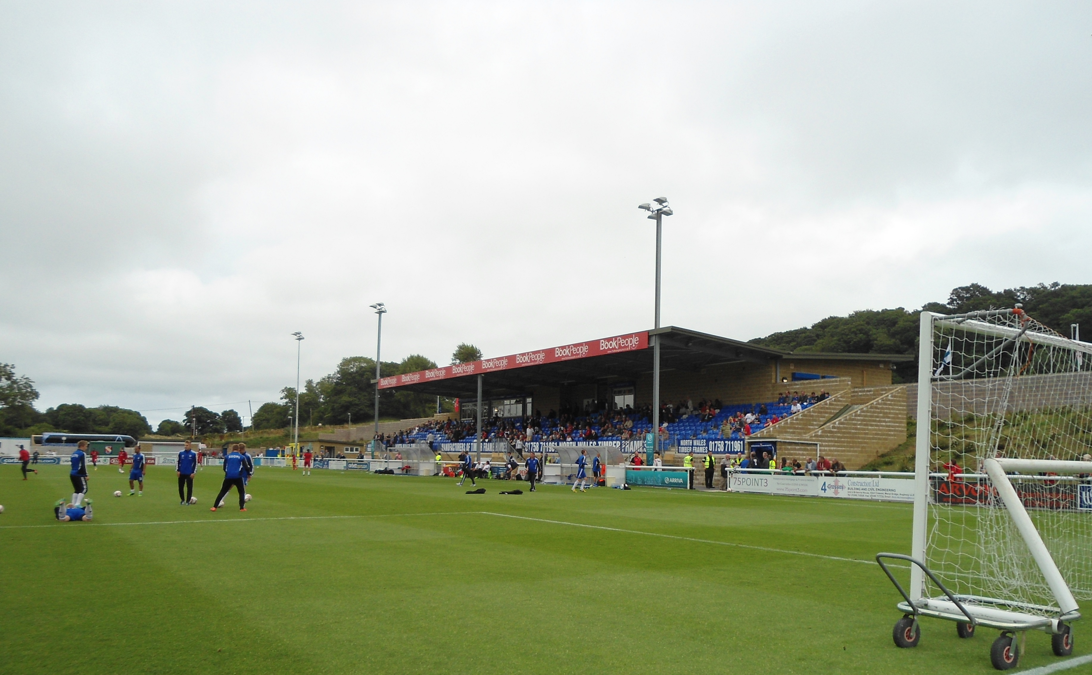 The main stand of Bangor City F.C.'s ground, Nantporth